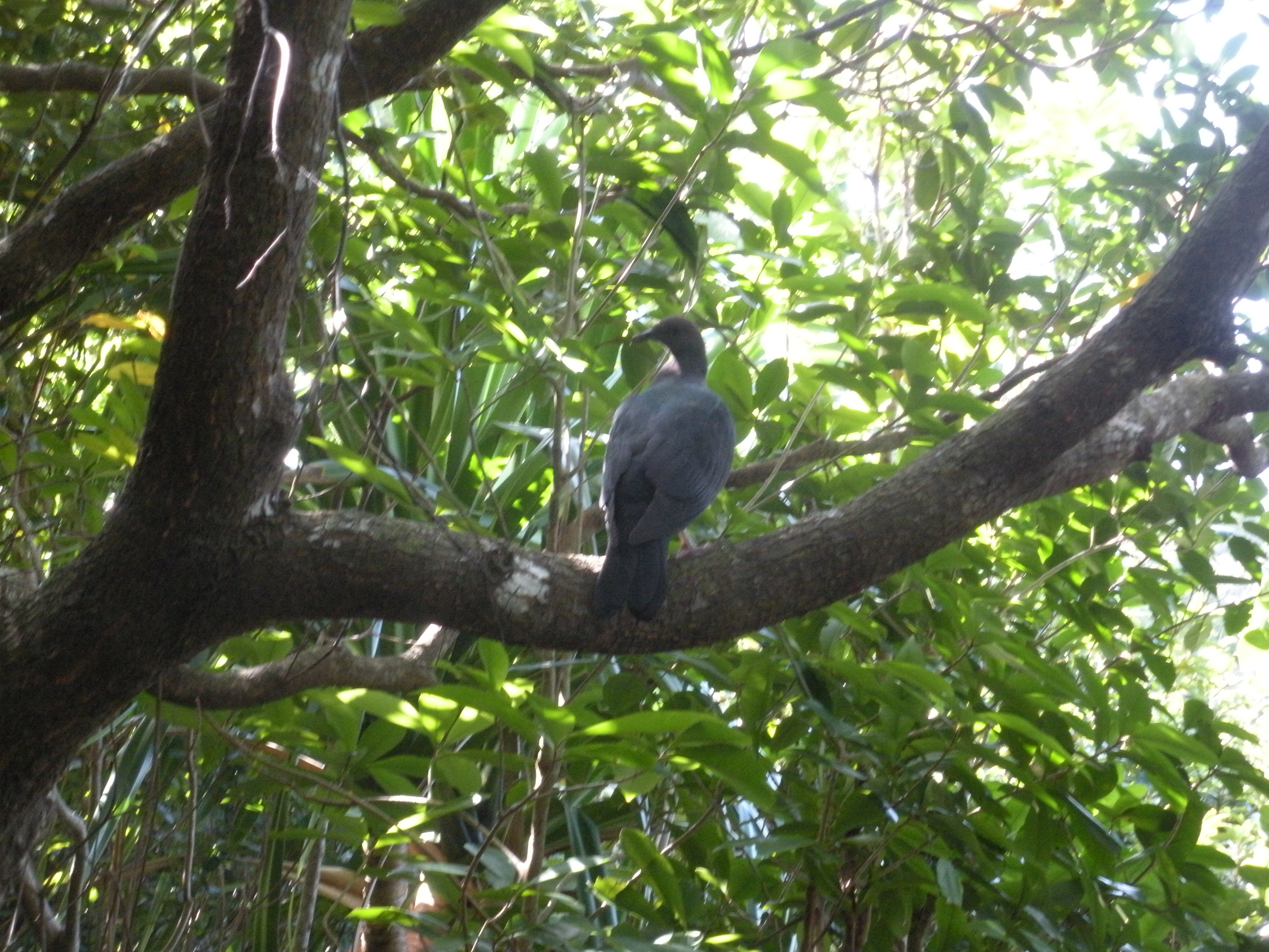 Wild bird in Japan Bonin IsLands Chichijima IsLand